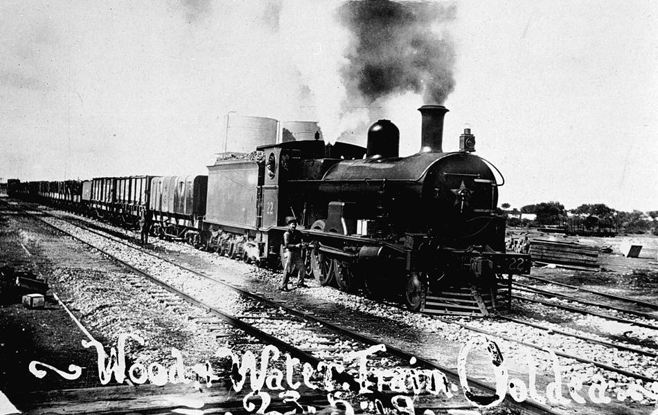 Commonwealth Railways G class locomotive no. G22 with a wood and water train at Ooldea, South Australia, on the Trans-Australian Railway.The locomotive was built by Toowoomba Foundry, Toowoomba, Queensland, Australia. It entered service in June 1917, was officially withdrawn in July 1952, and was scrapped in March 1959.Some of the information provided here about the image is obtained from Fluck, Ronald E; Marshall, Barry; Wilson, John (1996). Locomotives and Railcars of the Commonwealth Railways. Welland, SA: Gresley Publishing, p. 29. ISBN 0959969039.